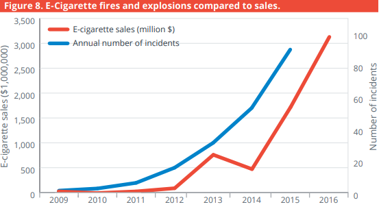 A line chart showing the number of e-cigarette fires and explosions versus e-cigarette sales in millions of US dollars.